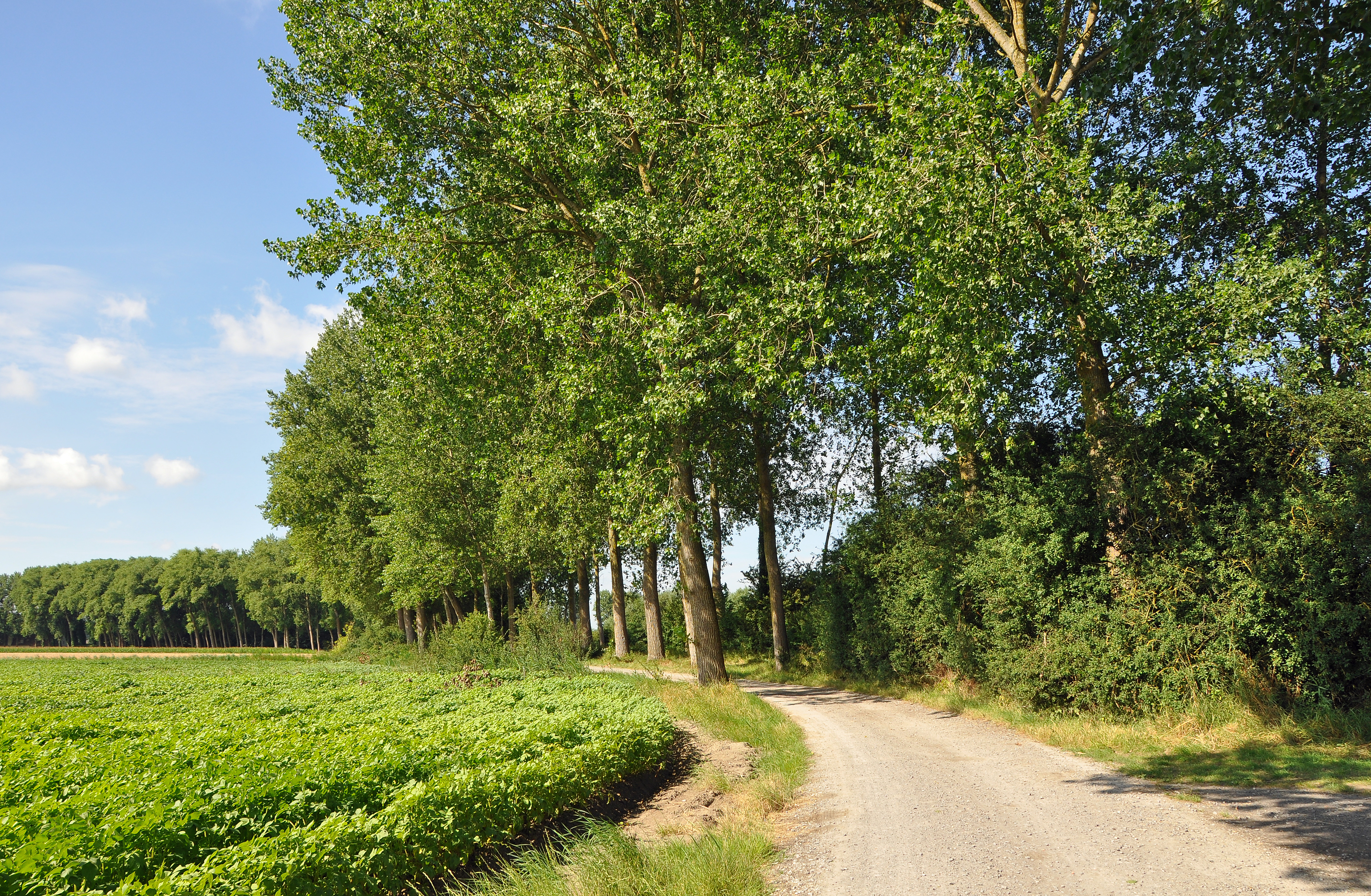 Damme (province of West Flanders, Belgium): Romboutswervedijk